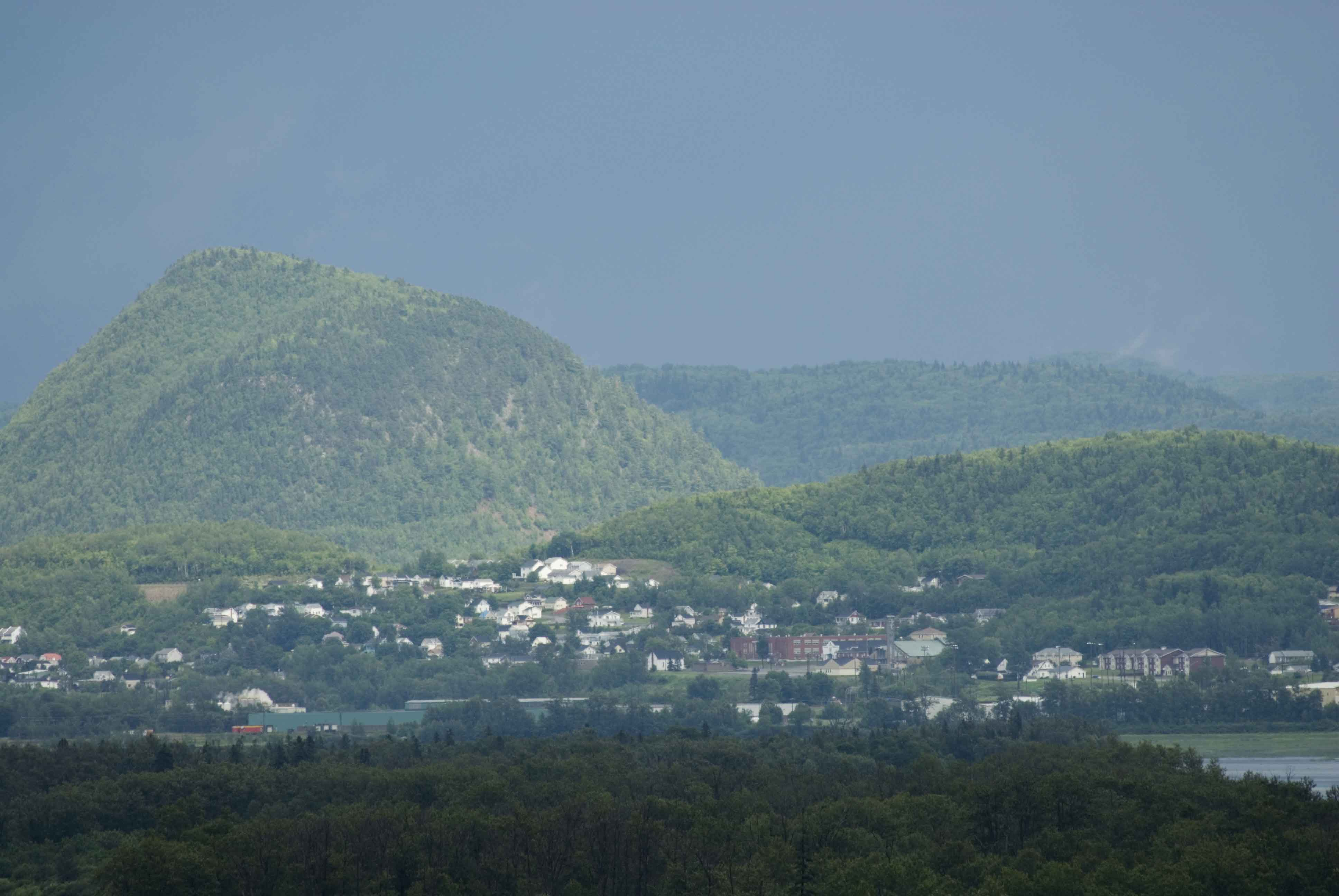 Atholville and the Sugarloaf, as seen from Quebec.